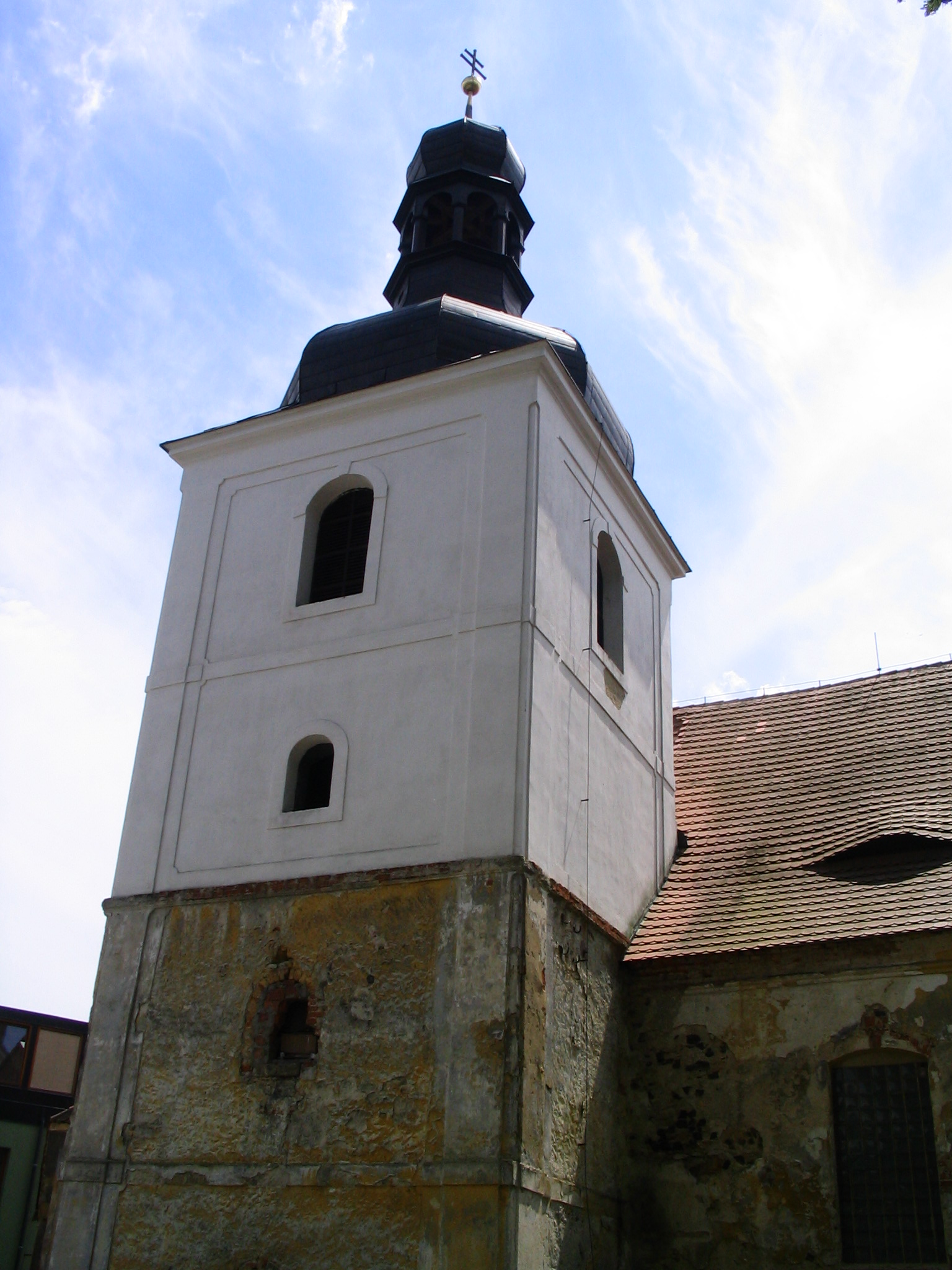 church in the village of Kurivody, Czech Republic